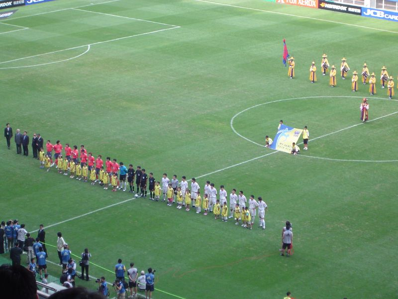 South Korea Vs China Daejeon World Cup Stadium Daejeon, July 2005